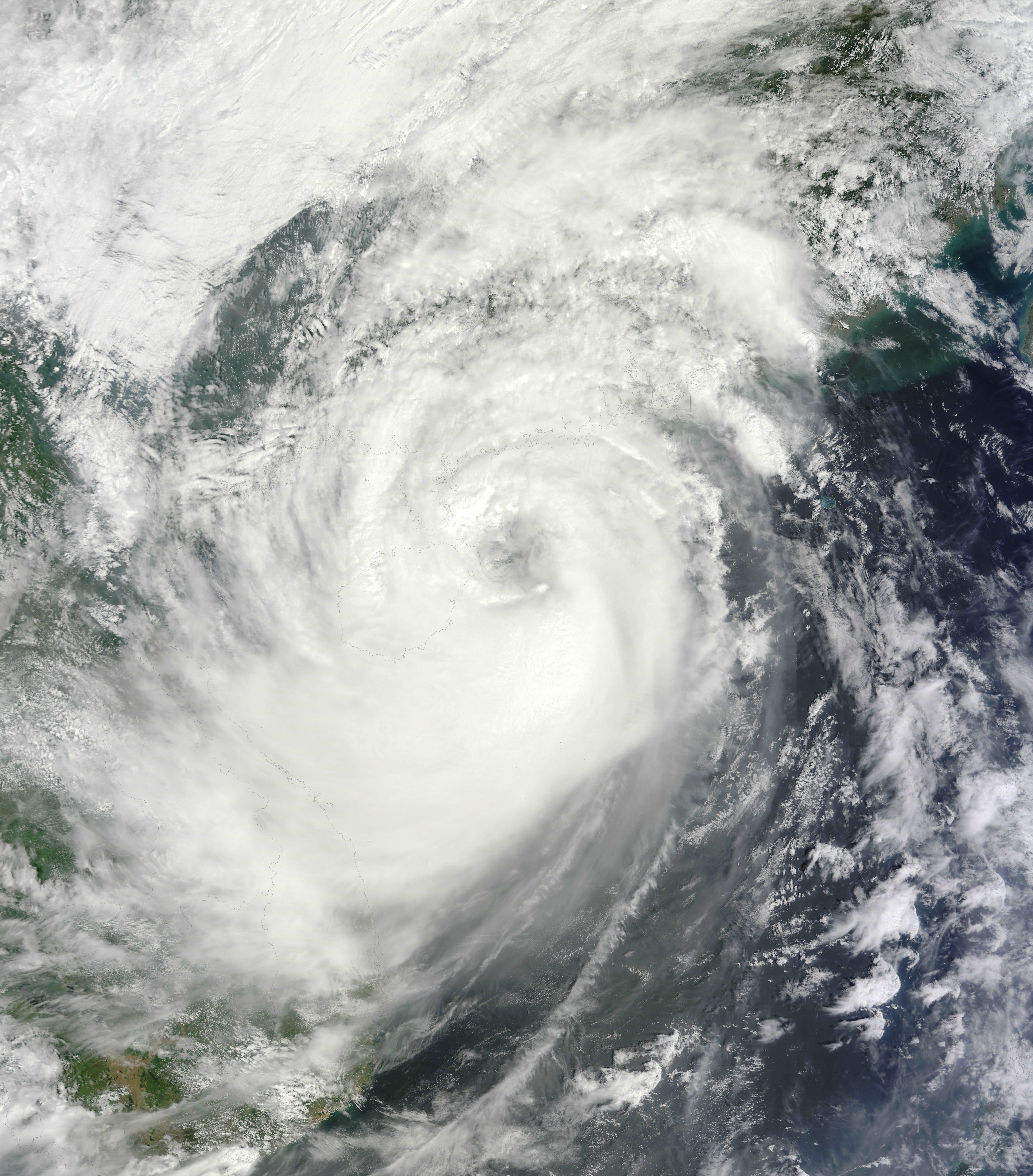 Typhoon Nesat to make landfall over Hainan, China on September 29, 2011.